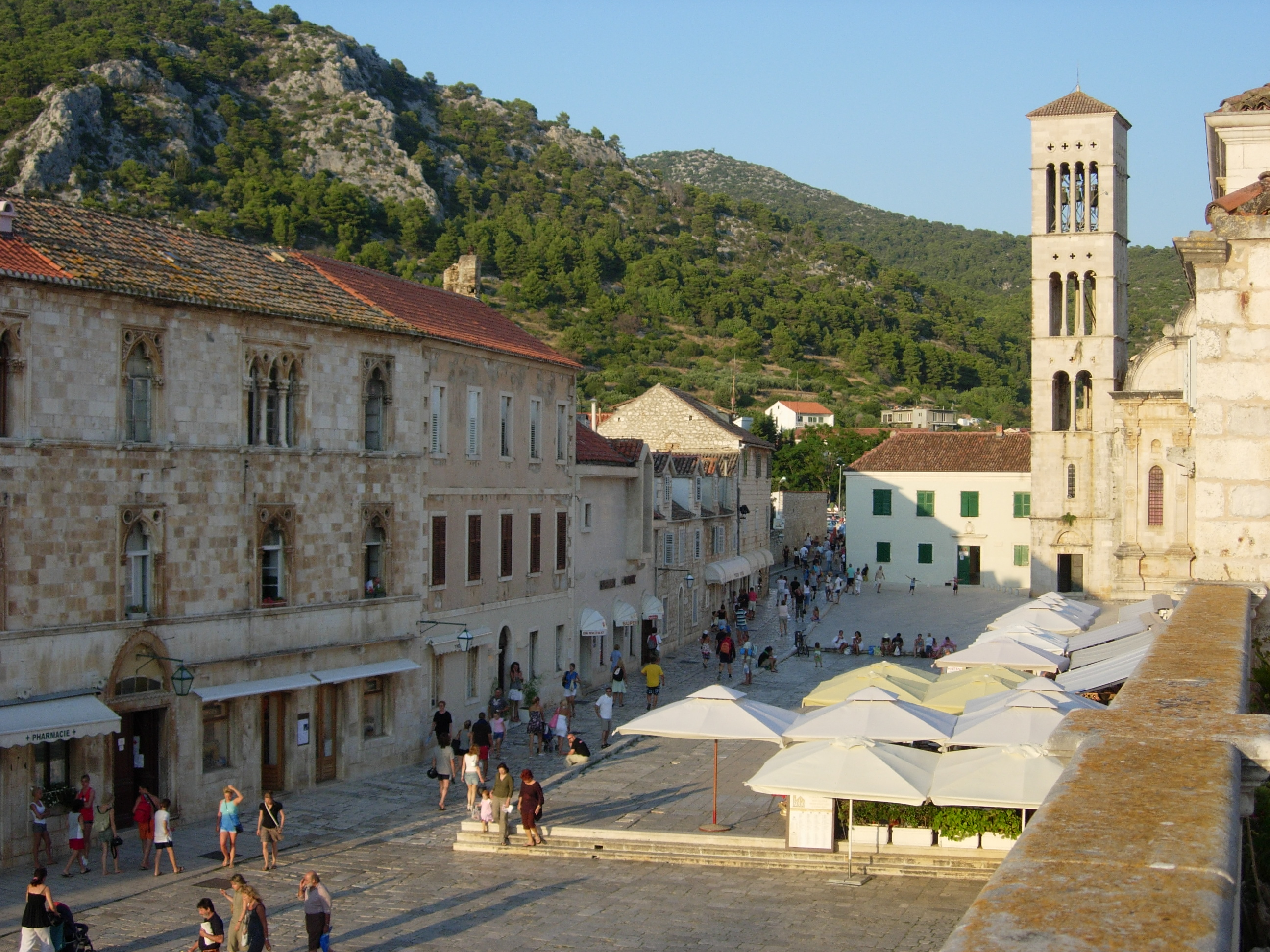 Category:Hvar main square.